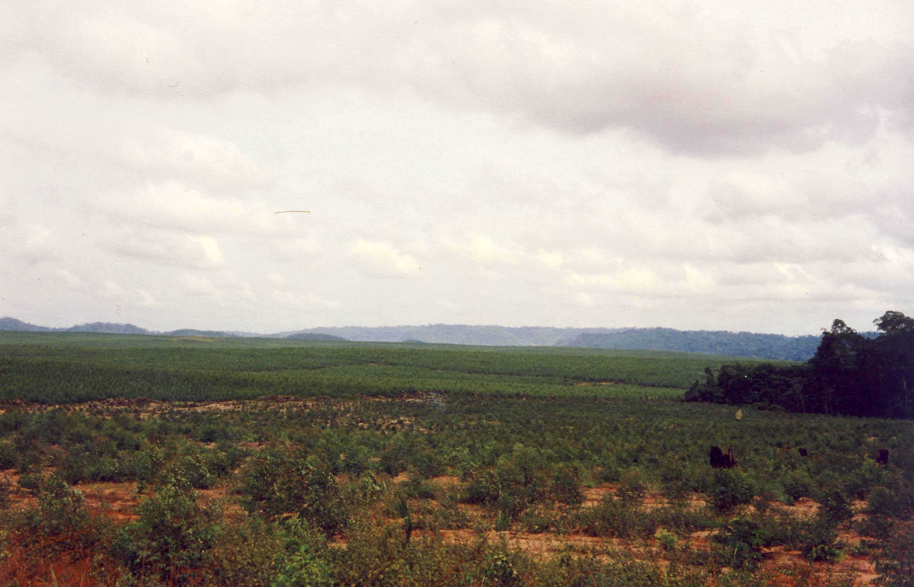 Errosion on Jari Project in Amazonia